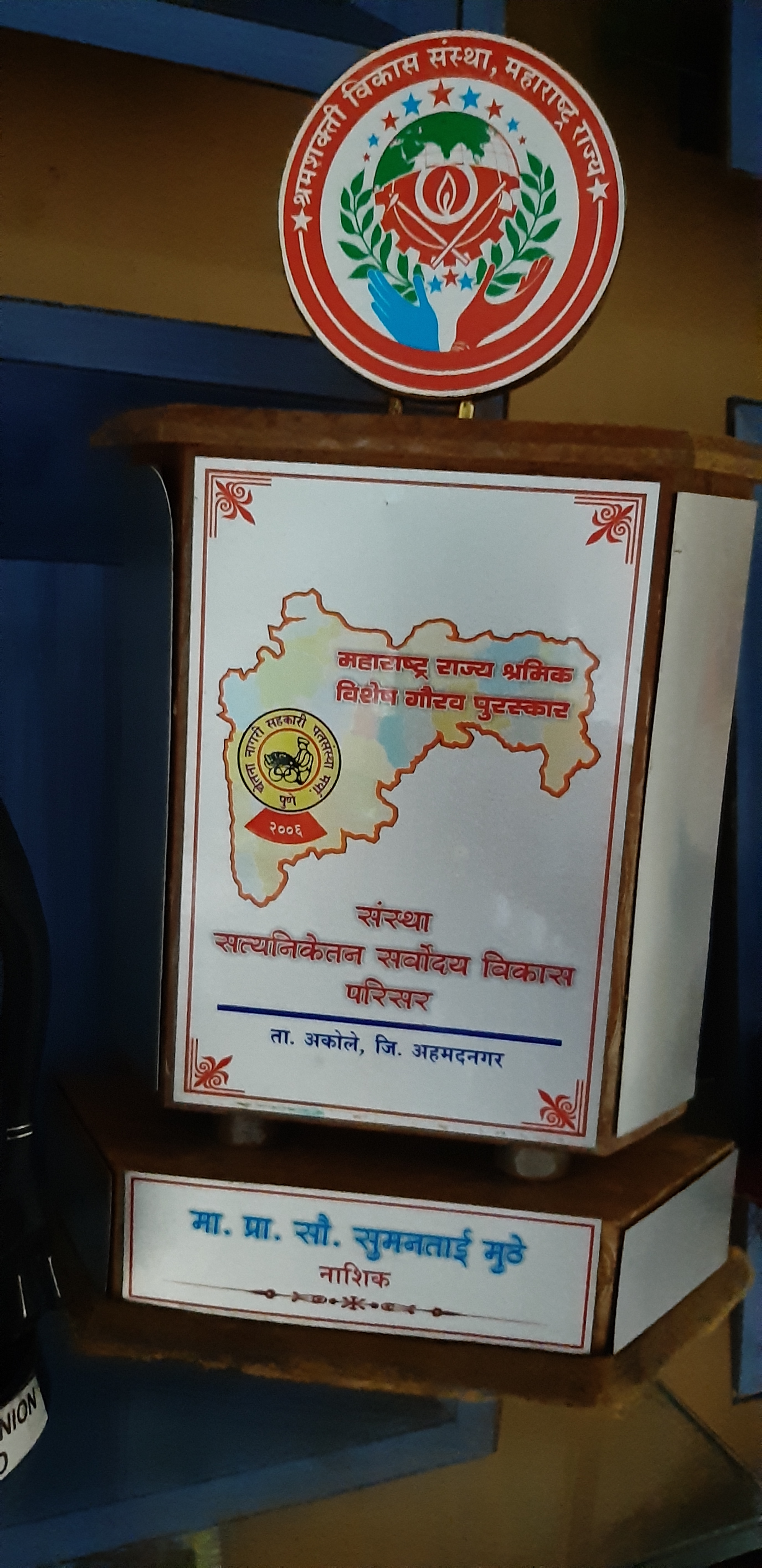 Shramik Gaurav Puraskar